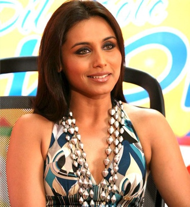 Rani Mukerji at a promotional event for "Dil Bole Hadipaa!" in 2009